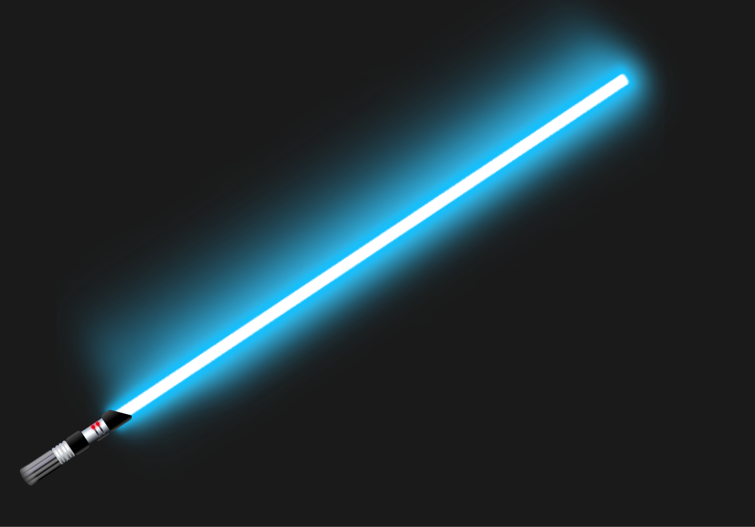 Lightsaber blue (with shimmering aura)